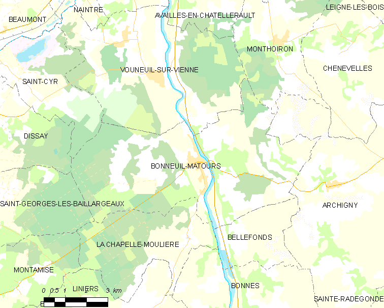 Map of French municipality Bonneuil-Matours